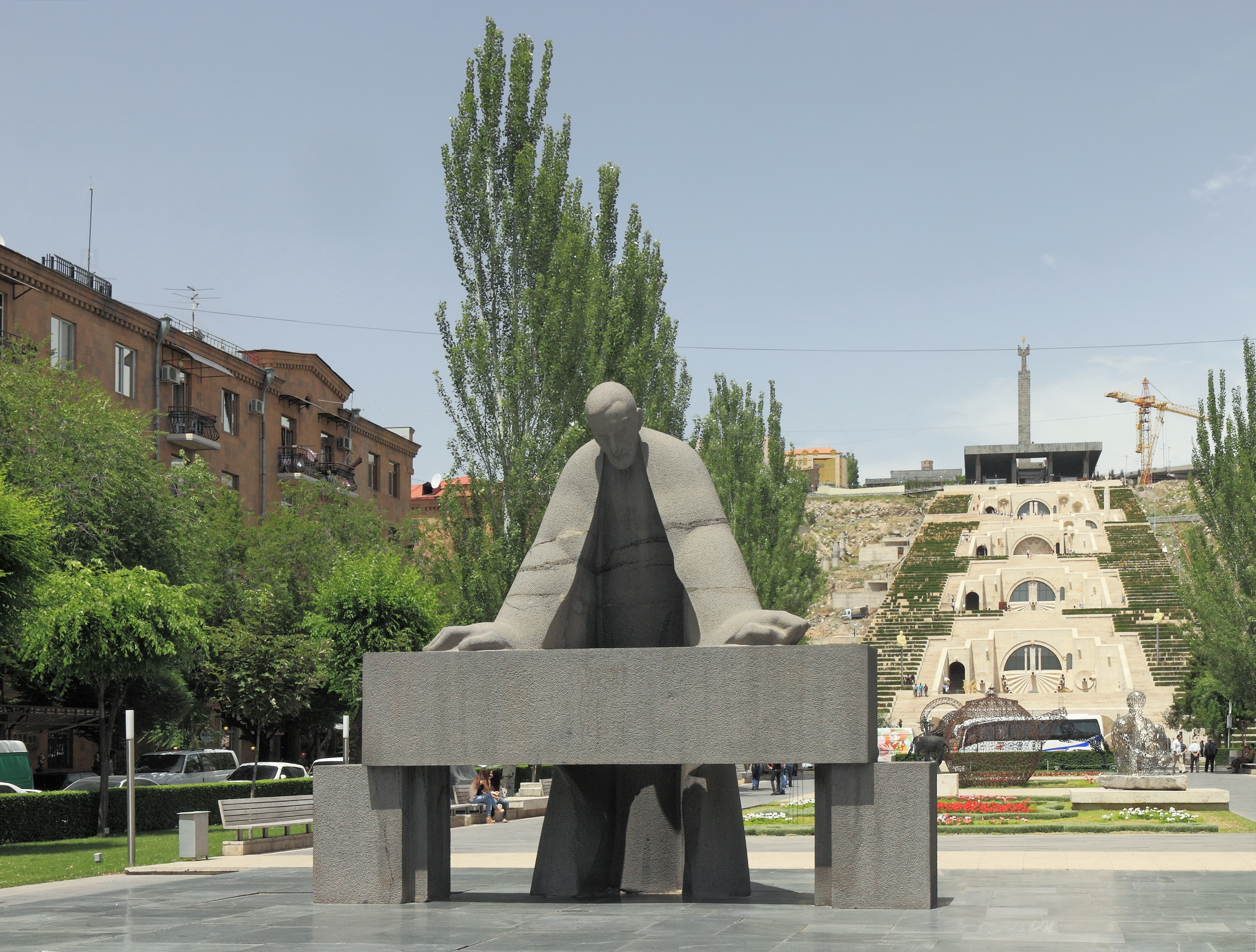 Monument to Alexander Tamanian. Yerevan, Armenia.